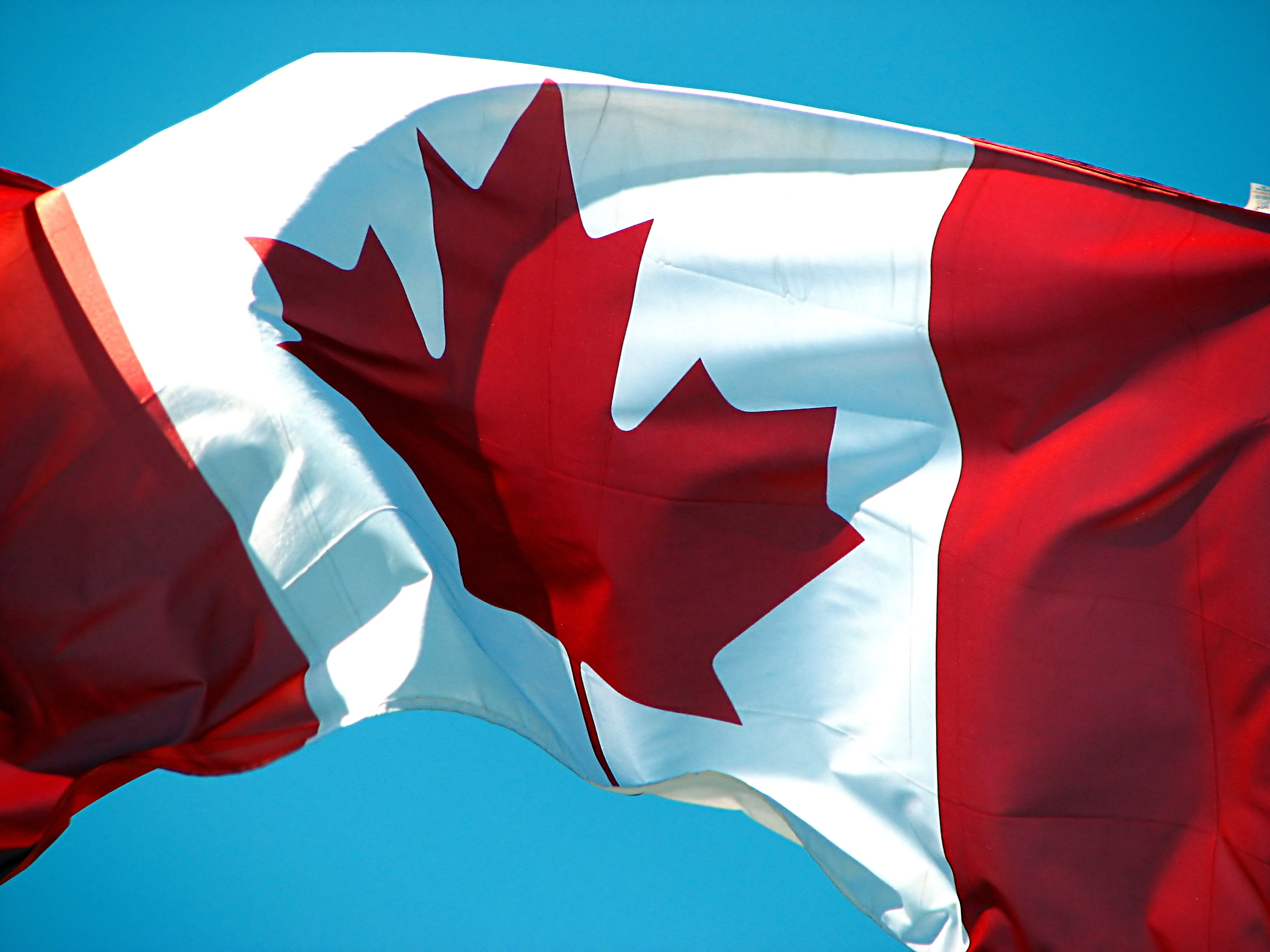 We're proudly celebrating Canada's 141st birthday today!